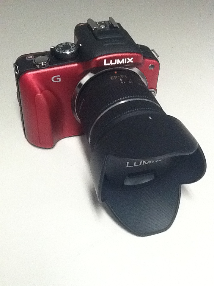 I just got it! It's definitely smaller than my old Lumix G2, which my brother bought from me, and I'll admit it'll take some time to adapt to the smaller grip. But I can't wait to take some photos with the new 15.8 MP sensor.